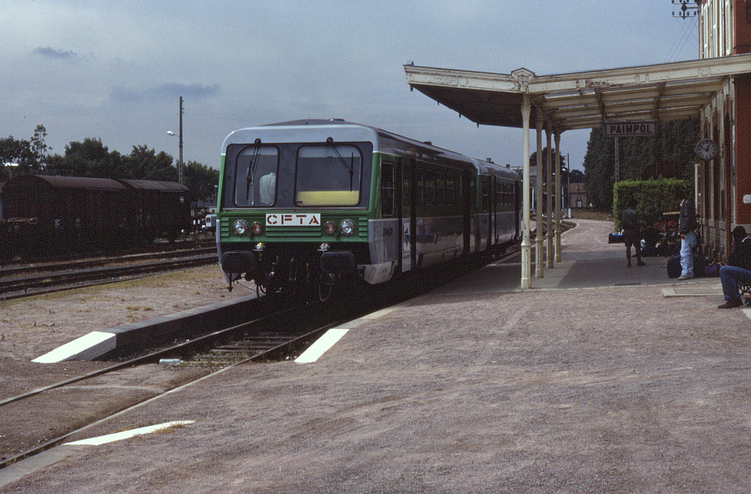 Three of these single railcars were buily by Soulé in 1990 to work former CFTA (Chemins de Fer et Transport Automobile) lines in Britanny. Known as A2E they were found on the branches from Guingamp to Carhaix and (here) Paimpol. On 30 July 1990, cars X 97151 and X 97153 form the 13:09 Paimpol to Guingamp.